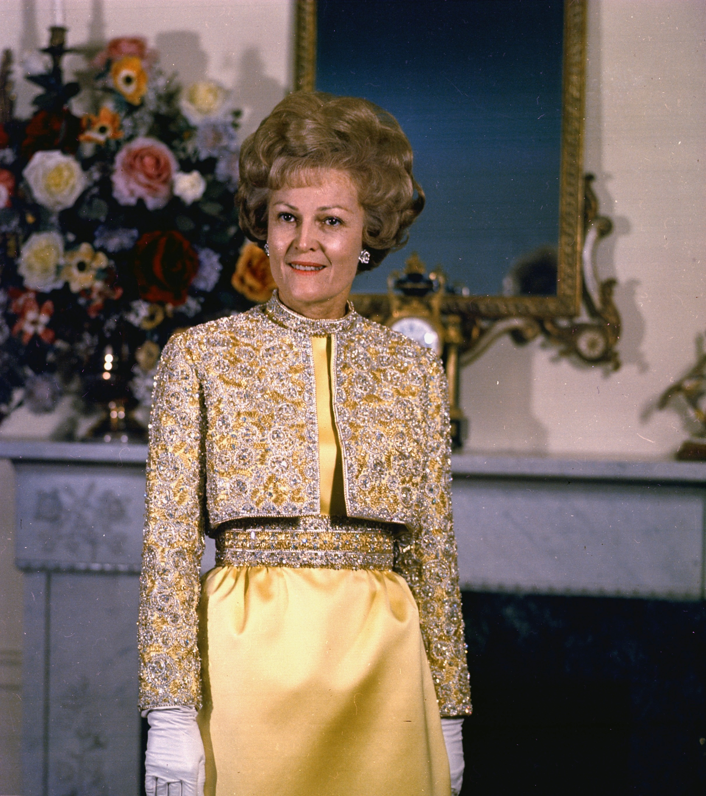 Portrait of Mrs. Nixon.